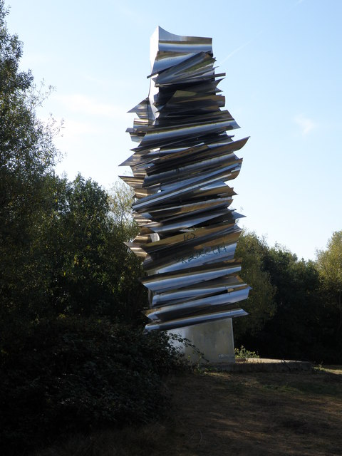 Large sculpture near the Eye roundabout